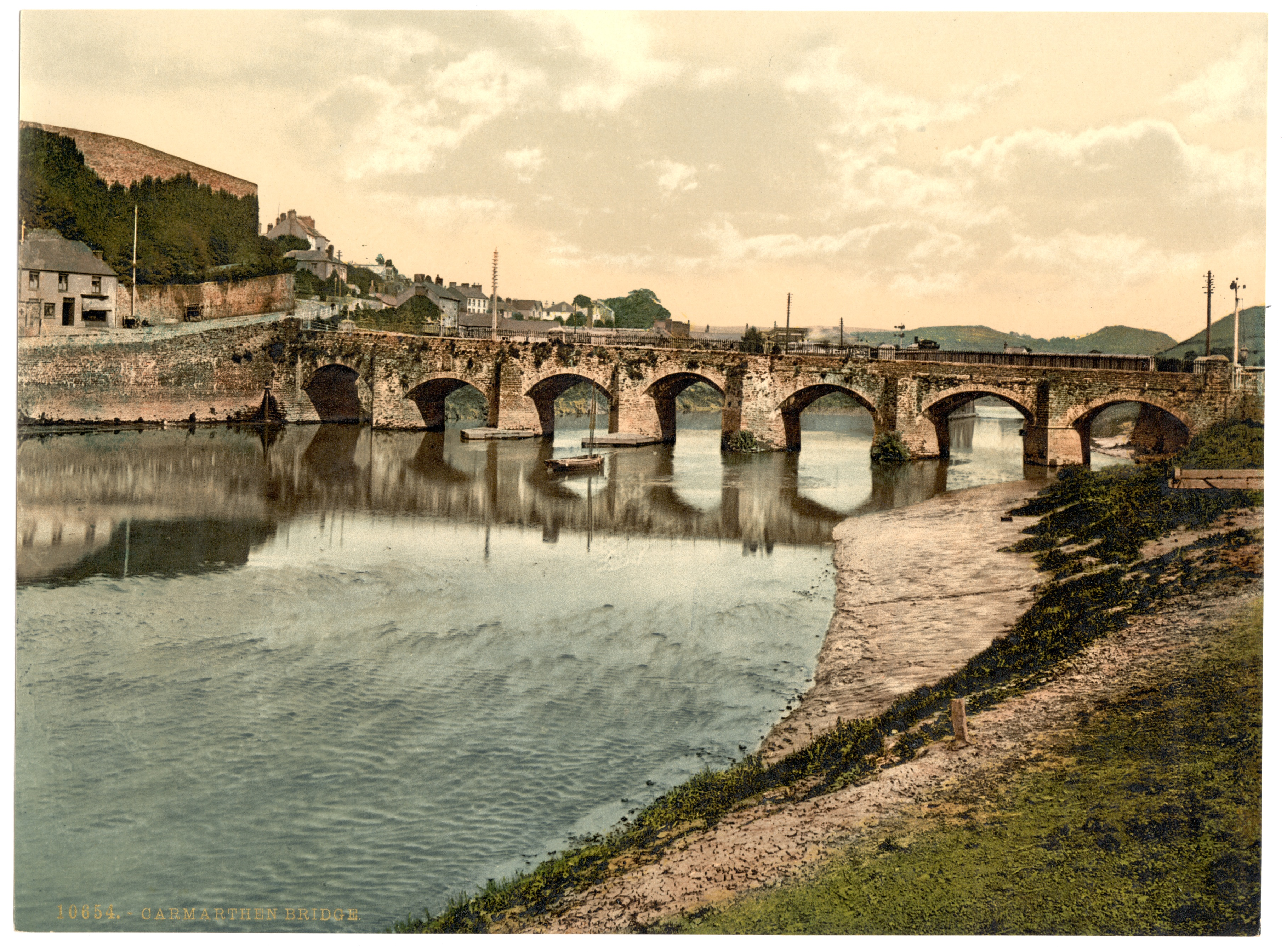 Print no. "10654".; Title from the Detroit Publishing Co., catalogue J-foreign section. Detroit, Mich. : Detroit Photographic Company, 1905.; More information about the Photochrom Print Collection is available at Forms part of: Views of landscape and architecture in Wales in the Photochrom print collection.